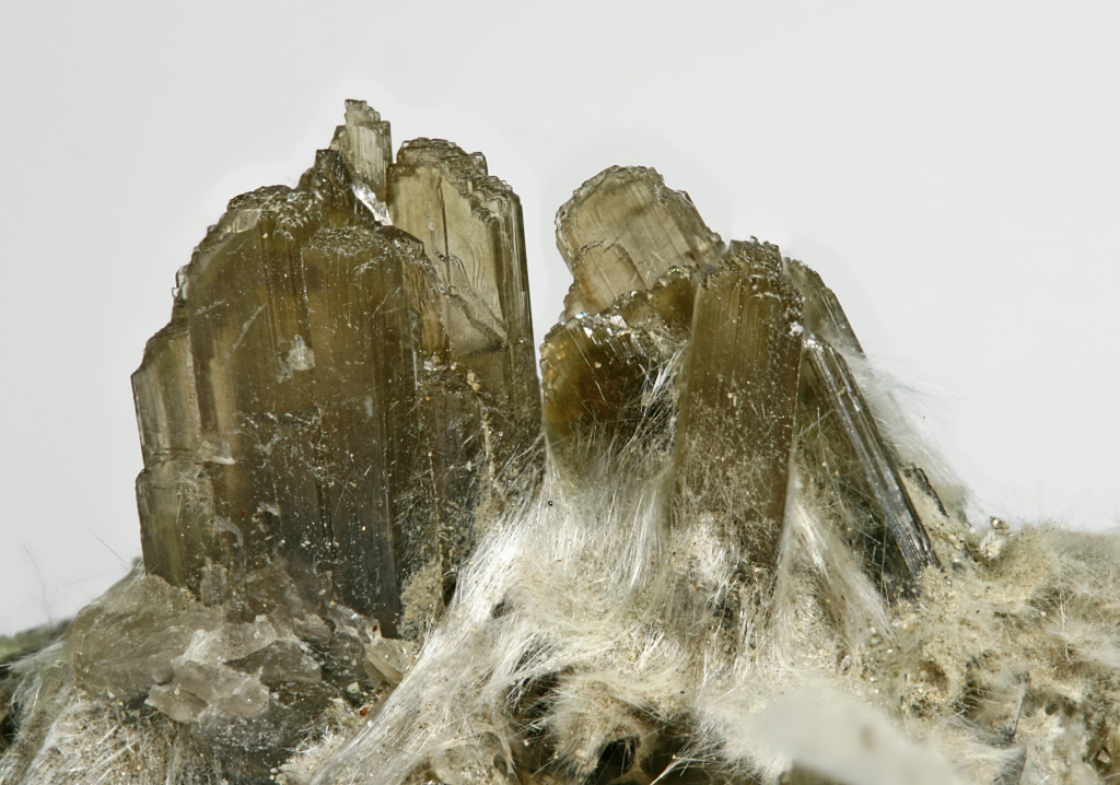 Clinozoisite, Amphibole Group - Locality: Mt Belvidere Quarries (Vermont Asbestos Group mine; VAG mine; Ruberoid Asbestos mine; Eden Mills quarries), Lowell & Eden, Orleans & Lamoille Cos., Vermont, USA - Tallest crystal about 1 cm. Found May 1994. At the time this was collected the fibrous stuff was being called palygorskite. But according to Van King palygorskite has not yet been ID from here. Possibly an amphibole - but not a true asbestos species